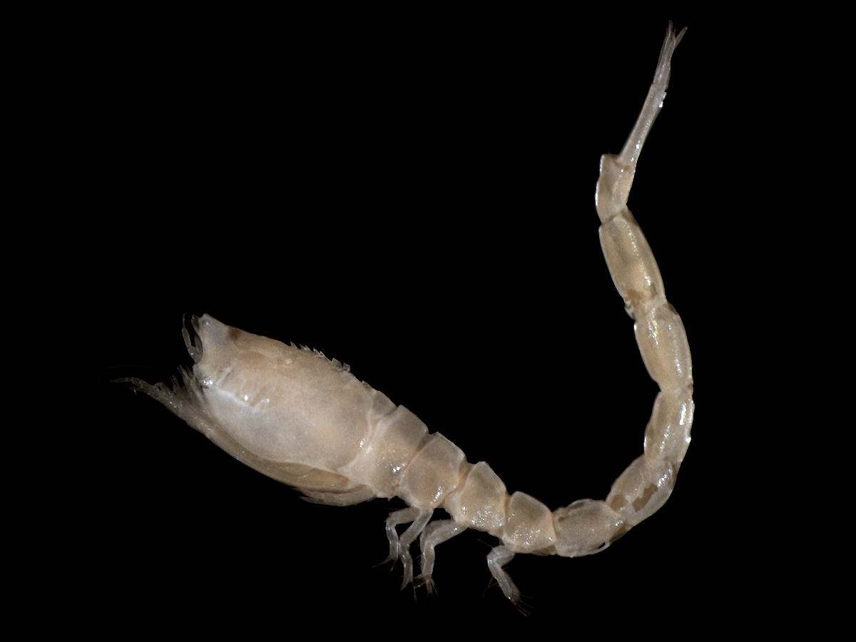 Cumacean photographed with an Axiocam (Zeiss) camera mounted on a Zeiss Stemi C-2000 binocular microscope. Length: ~7 mm This cumacean was sampled on the Dutch Continental Shelf. Geolocation is the place were the animal was caught.